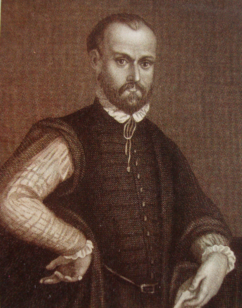 An illustration in an edition of the Prince published by Henry G. Bohn, London, in 1847. [1]